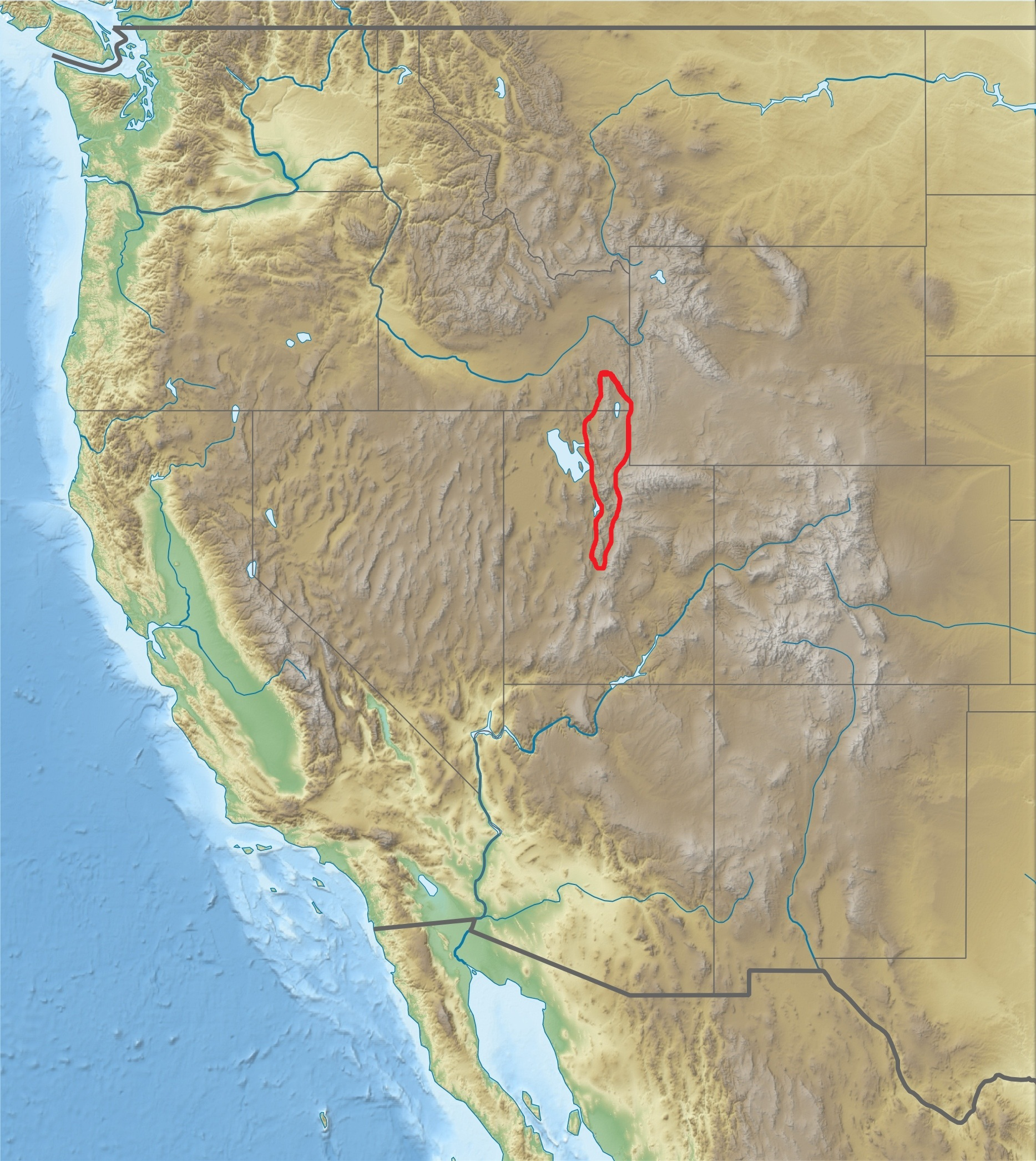 Wasatch Range on a physical location map of Western United States, USA Equirectangular projection, N/S stretching 130.0 %. Geographic limits of the map: N: 49.5° N S: 28.3° N W: 126.0° W E: 101.4° W